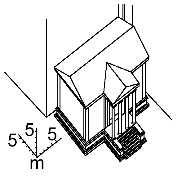 Temple of Veioves, reconstruction, in Rome